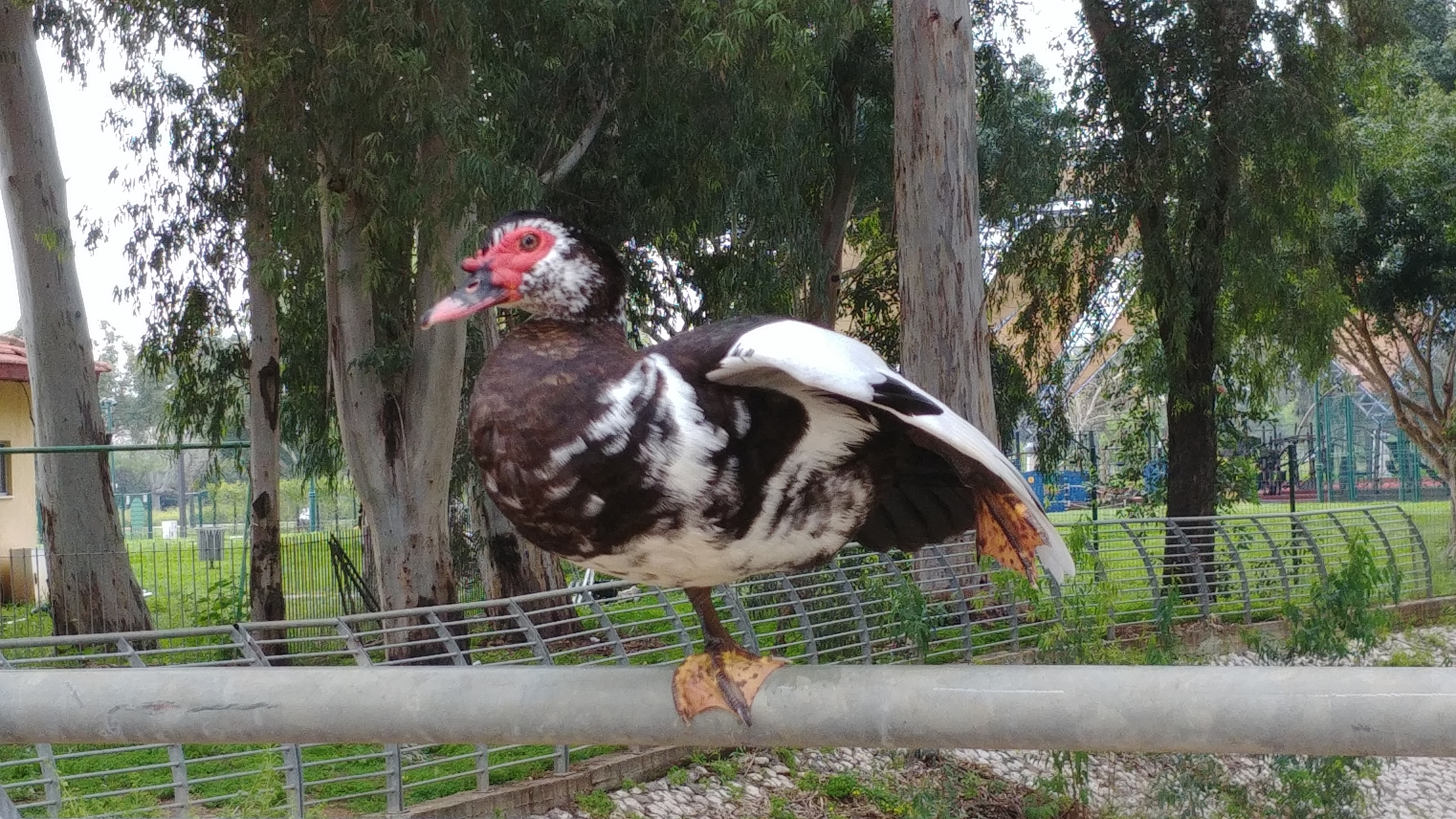 Duck with feathers in black and white. Photographed at the Ramat Gan National Park